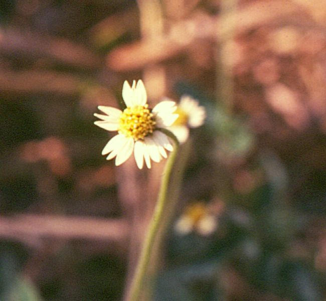 Tridax procumbens, Asteraceae - Kambodscha/Cambodia, Sihanoukville, S Weather Station Hill